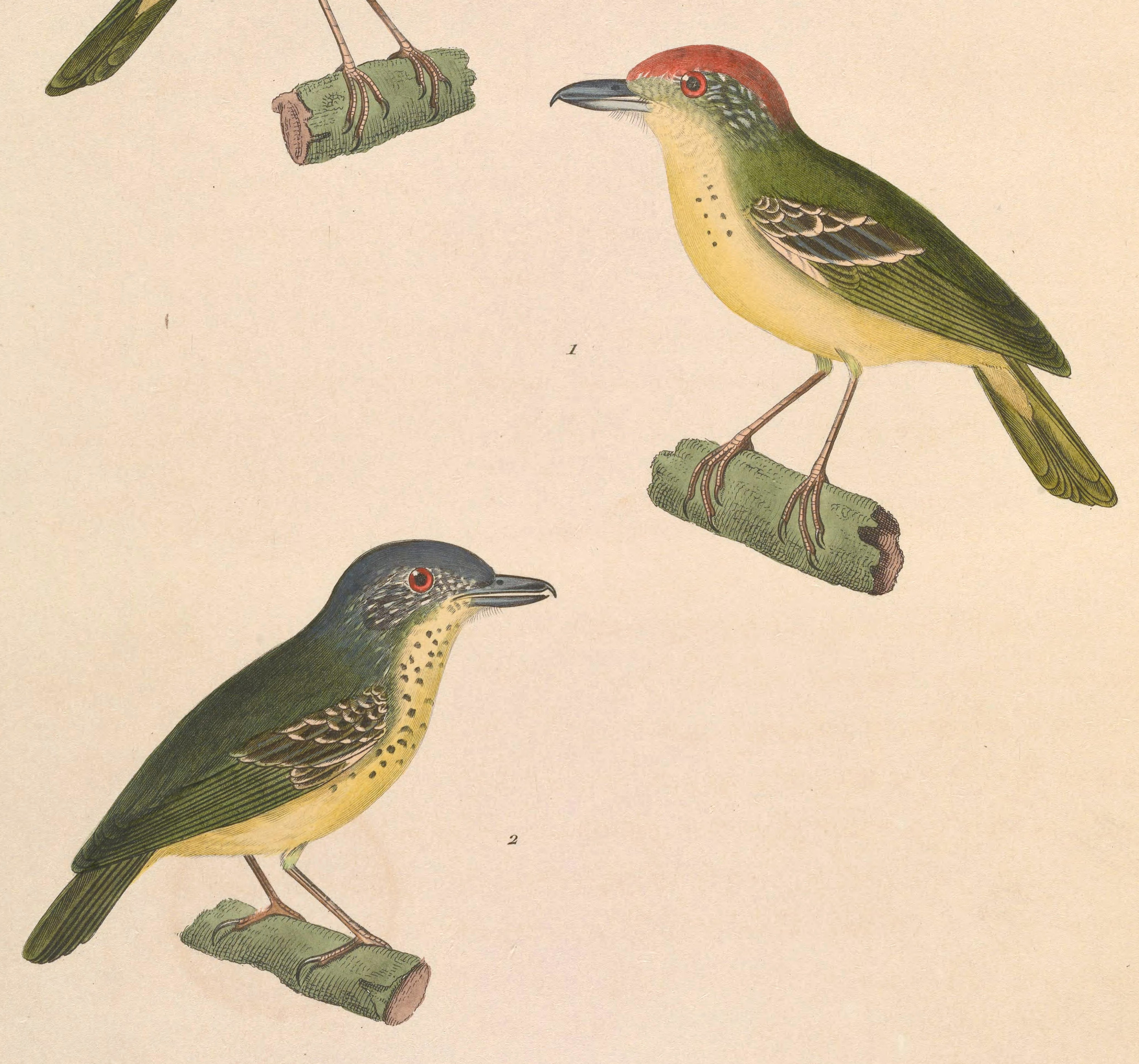 « Myothera strictothorax » = Dysithamnus stictothorax (Spot-breasted Antvireo) - male and female